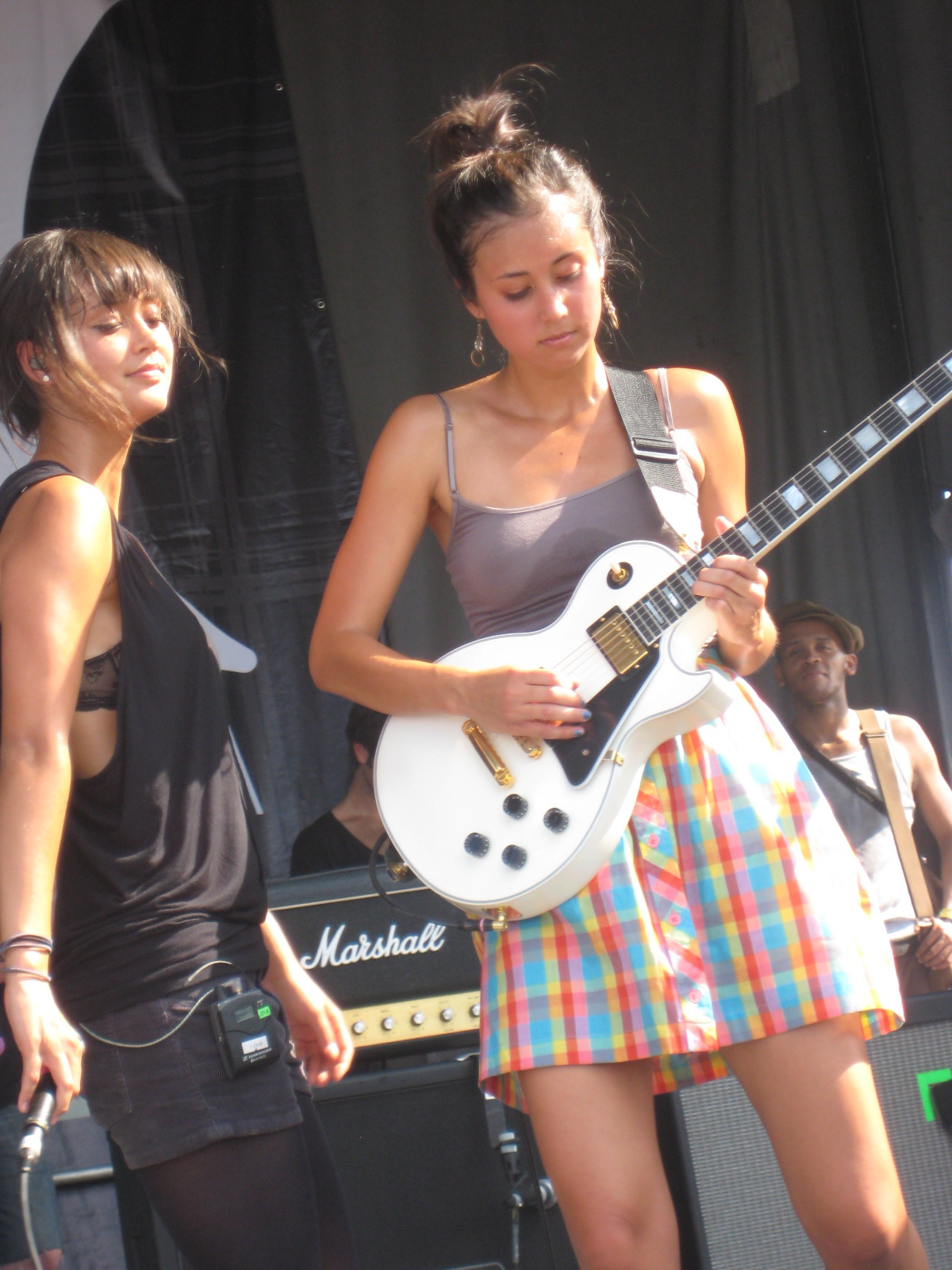 Meg and Dia at Warped Tour Houston 09